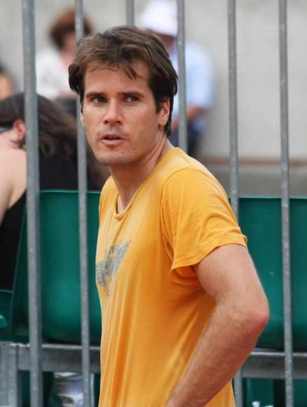 Tommy Haas at 2009 Roland Garros, Paris, France